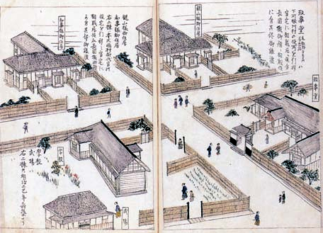 Picture of "Kokkan Gakkō" (Kokkan School) by Ogawa Tōchi